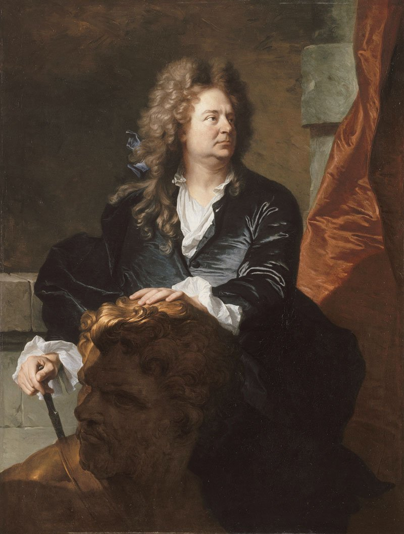 Portrait of the sculptor Martin van den Bogaert, also known as Martin Desjardins (1637–1694). Reception piece for the Royal Academy, 1692.